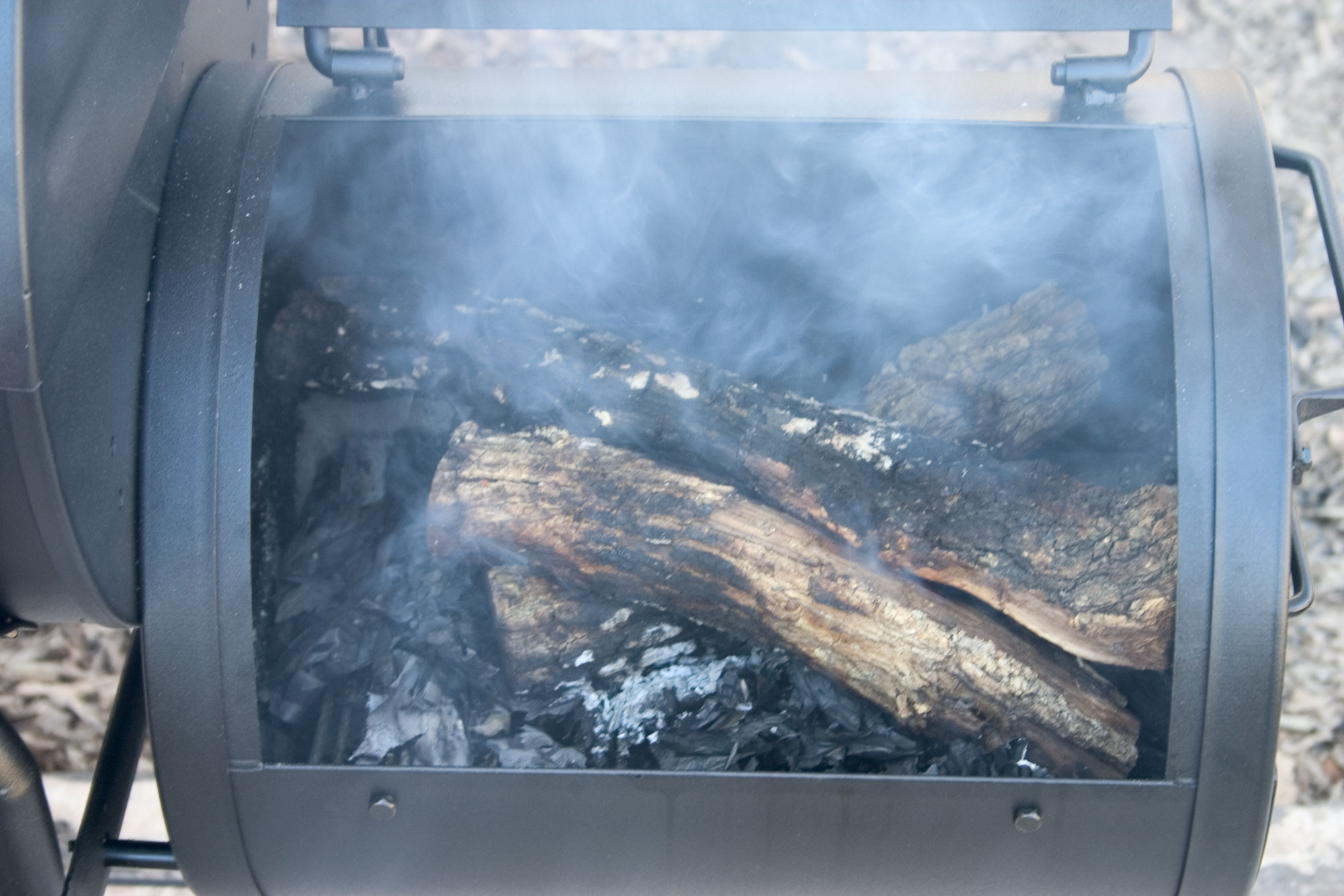 It took a lot of effort to get these to burn really well, but once it started, the fire kept going all night.